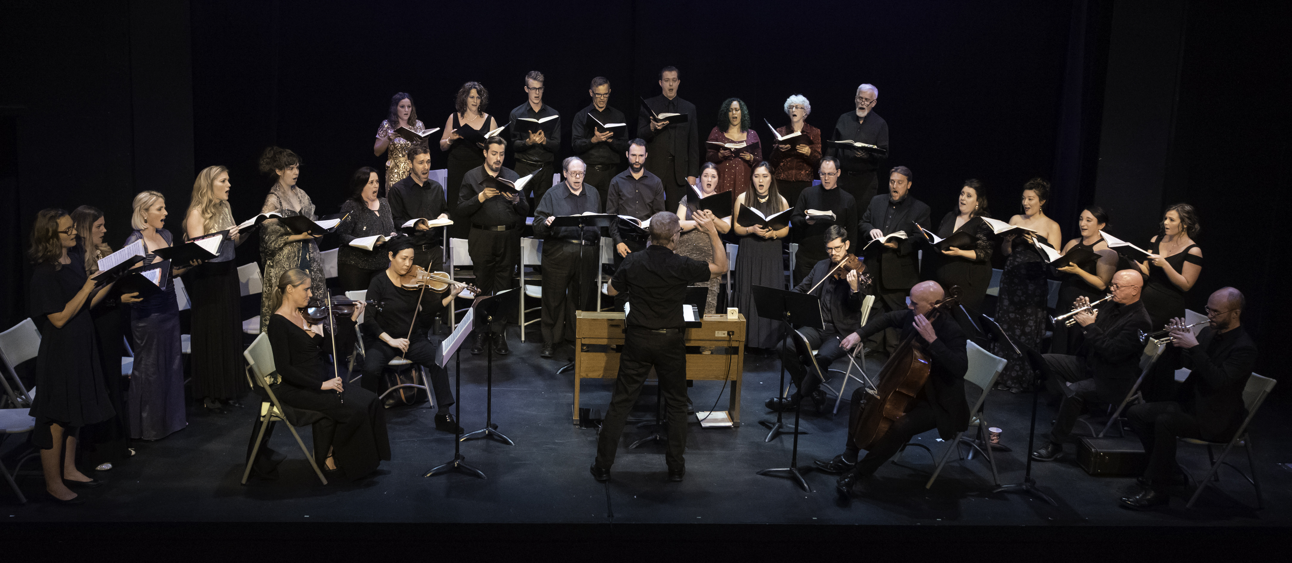 twenty-six chorus singers, six orchestra members, one harpsichordist and the conductor performing music on stage